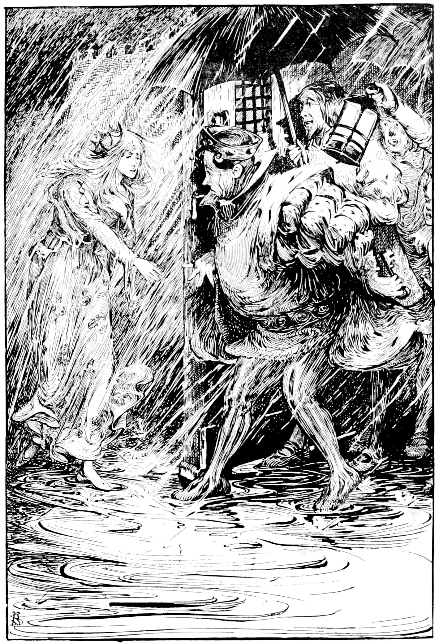 Illustration in a collection of Anderson's Fairy tales.